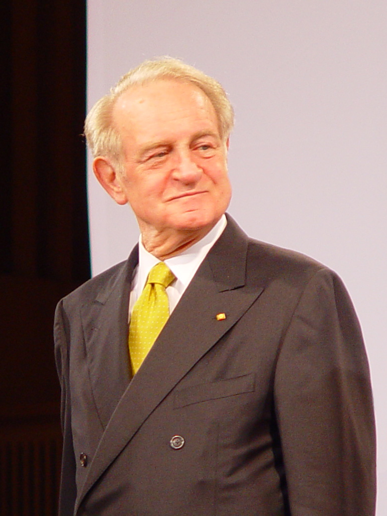 Johannes Rau, Germany's then Federal President, during the finale event of the debating competition "Jugend debattiert" in the main studio of the RBB ("Rundfunk Berlin-Brandenburg") in Berlin on May 16, 2004